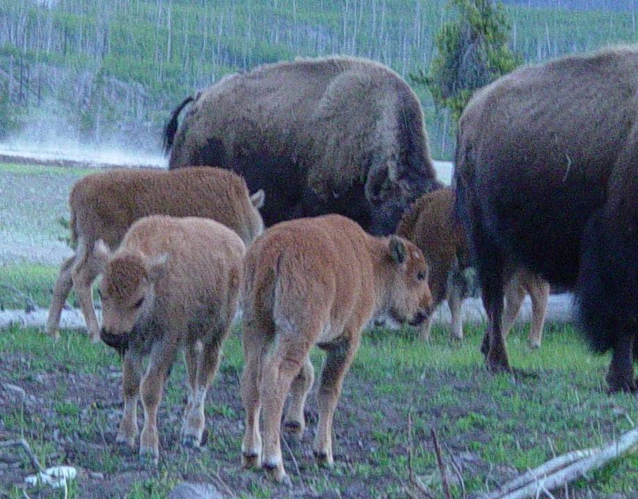 Photo taken in the Yellowstone area.